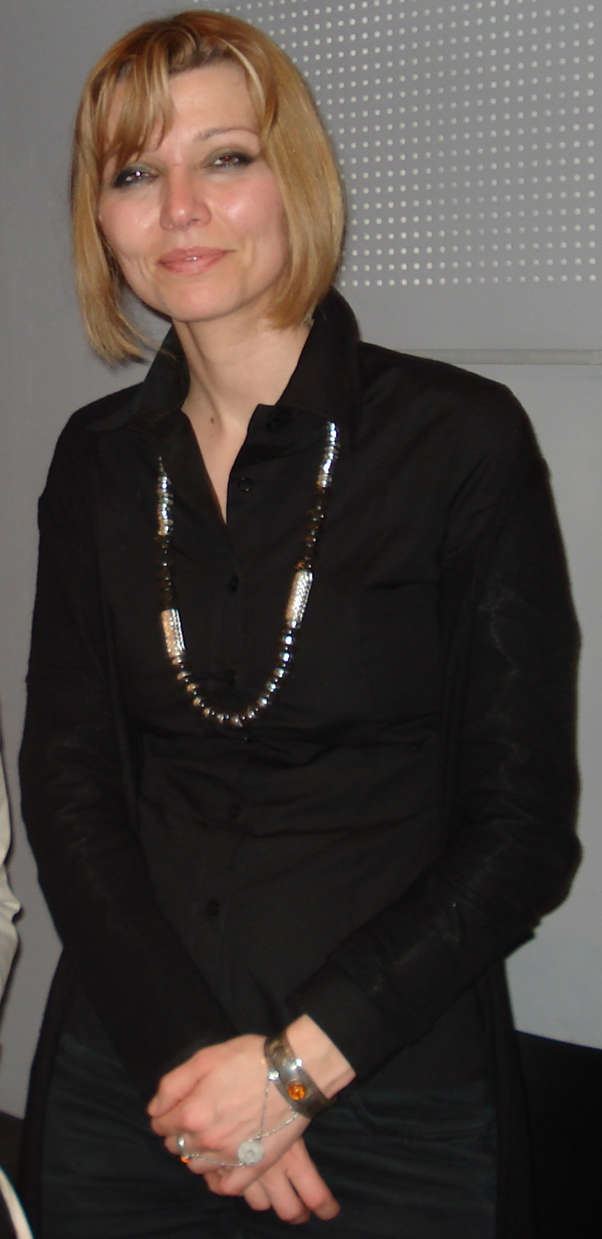 Turkish author